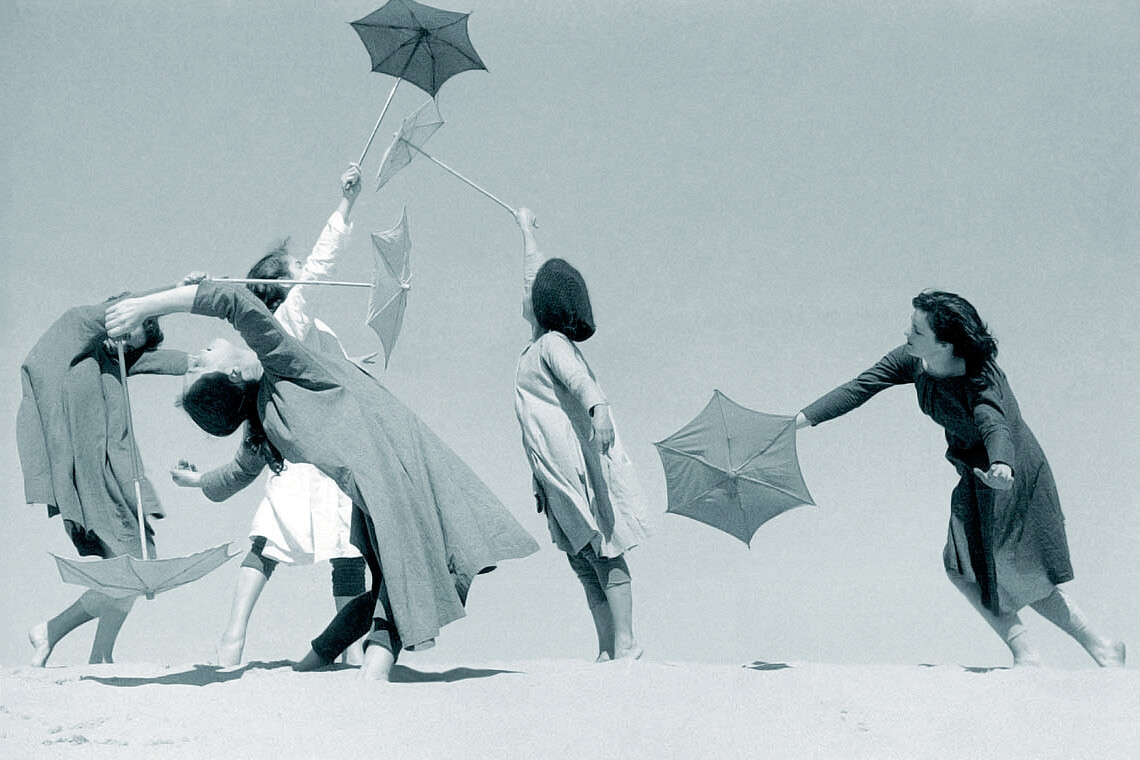 Margaret Barr (1904-1991) was born in Bombay, India. She went to school in California, USA, and in the 1920s studied dance with Martha Graham in New York and choreographed her first works. During the 1930s she taught at Dartington Hall in Devon, England, an experimental school run by Dorothy and Leonard Elmhirst, and opened a studio in London. The productions of her own dance dramas often featured original music by composers such as Michael Tippett, Donald Pond and Edmund Rubbra. With her husband Bruce Hart, a conscientious objector, she travelled to New Zealand at the outbreak of World War II, where she accepted the position of Director of Movement at the Auckland School of Drama. She moved to Australia ten years later, and for four decades made a unique contribution as a choreographer, director and teacher. She formed the Margaret Barr Dance Group in Sydney in 1952, was Director of Movement at the National Institute of Dramatic Art from its inception in 1958 to 1975, and conducted classes at her Annandale studio. Her choreography was motivated by strong social and potitical concerns, and her dance dramas ranged over diverse topics such as the work of Mahatma Gandhi and Margaret Mead, drought, and the Melbourne Cup. She died in Sydney on 29 May 1991.